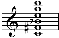 Scriabon cord in promteus Symphony